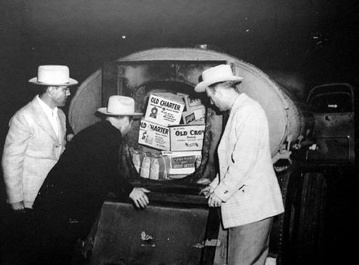 Photo of agents viewing boxes of illegal alcoholic beverages hidden in a tanker truck.